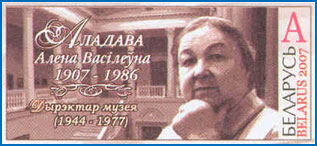 Аладова Елена Васильевна. 1907-1986. Директор Нацтонального художественного музея Беларуси (1944-1997) (на бел. яз.). Портрет Аладовой Е.В., холл музея. Марка выпущена к 100-летию Аладовой Е. В.